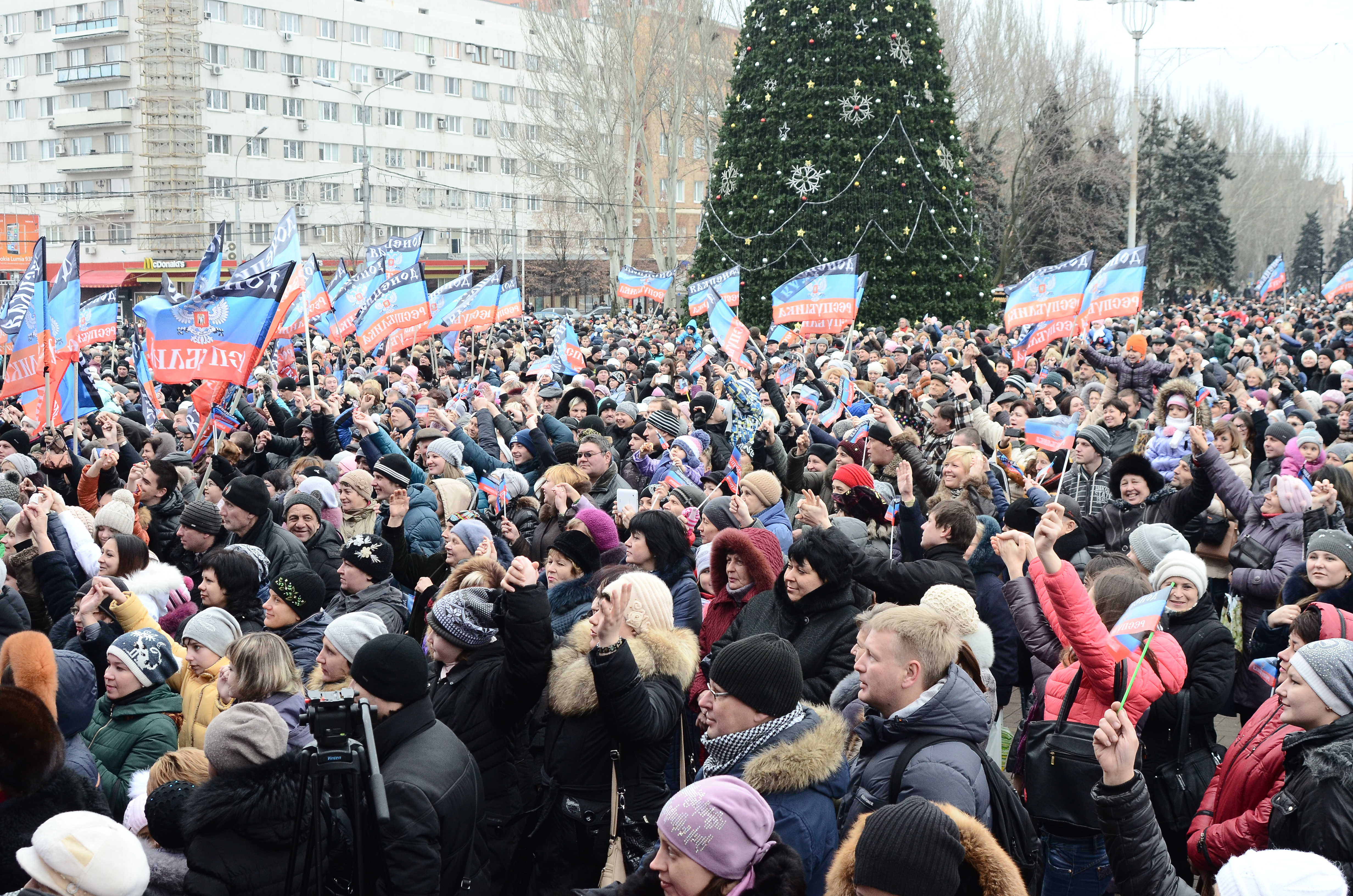 These peoples known as "dolboebs"